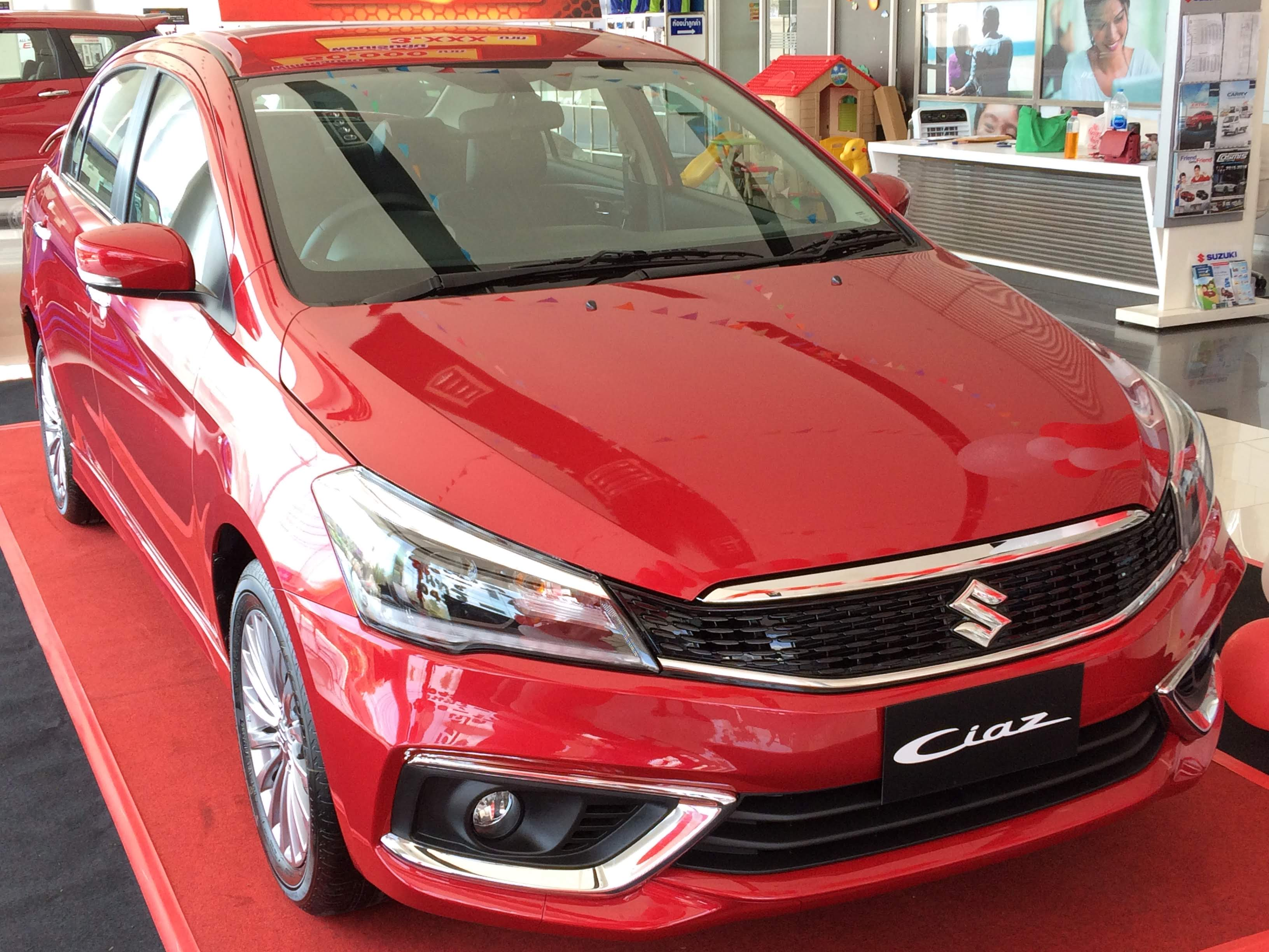 2020 Suzuki Ciaz RS in Suzuki R-Heng Wattana, Khon Kaen, Thailand.